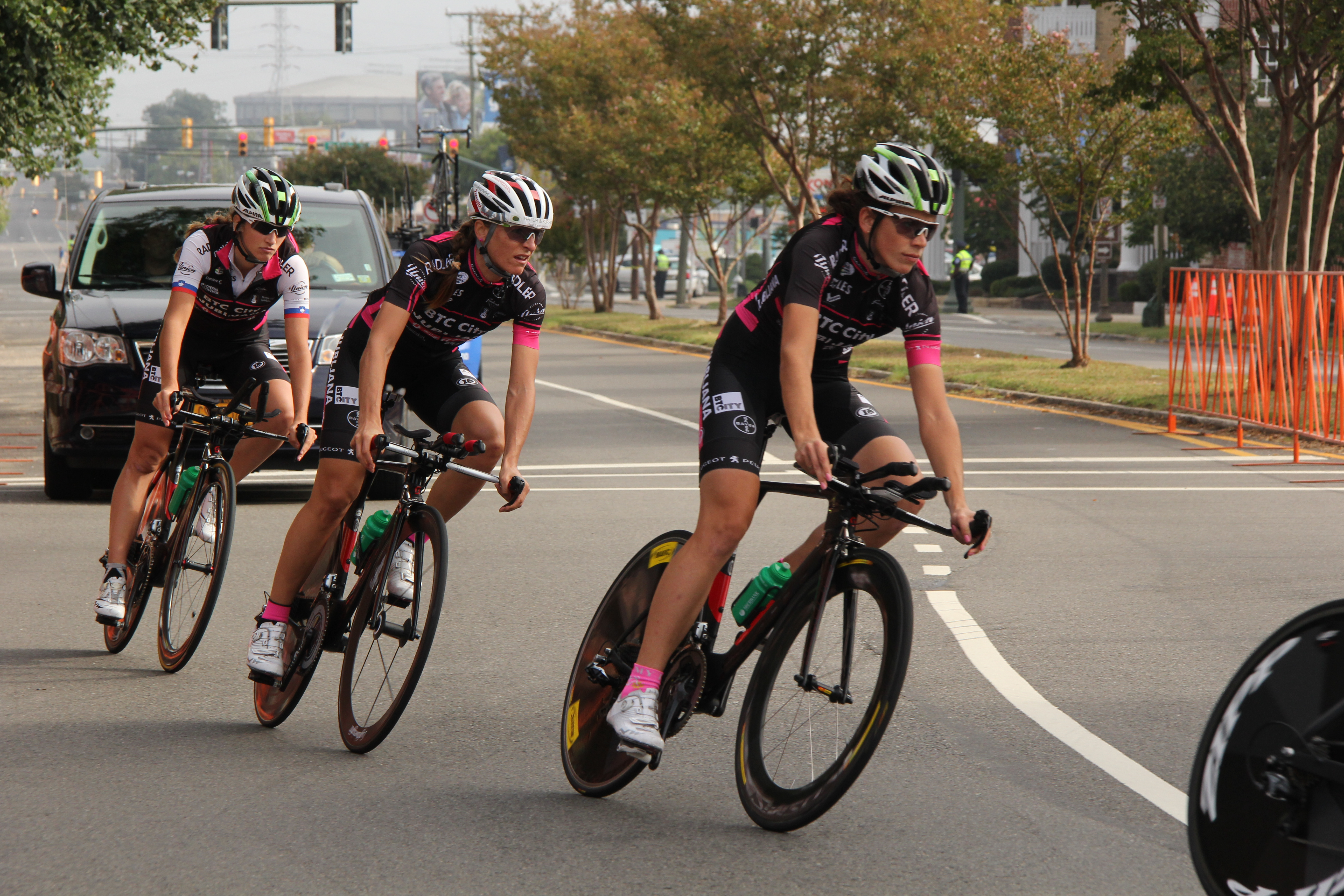 The world has come to Richmond. Welcome! Bienvenidos! Willkommen! 2015 UCI Road World Championships, in Richmond, United States